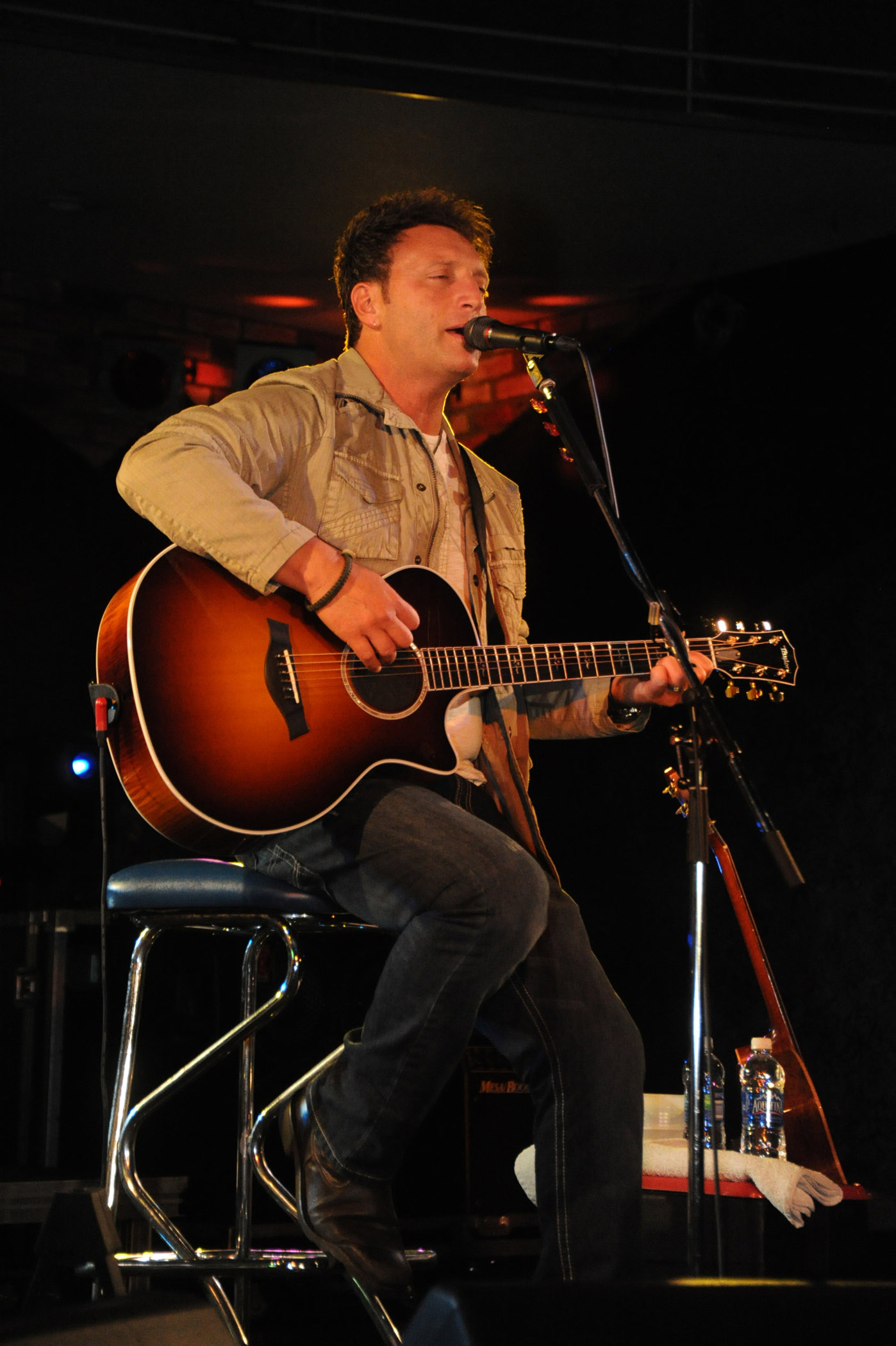 AYASE, Japan (Oct. 9, 2011) – Tim Rushlow of Little Texas sings to service members and their families at Club Trilogy on Naval Air Facility (NAF) Atsugi as part of a Country Concert. The concert was sponsored by Morale, Welfare, and Recreation (MWR) and Navy Entertainment to entertain the Sailors overseas. (U.S. Navy photo by Mass Communication Specialist Seaman Apprentice Vivian Blakely)